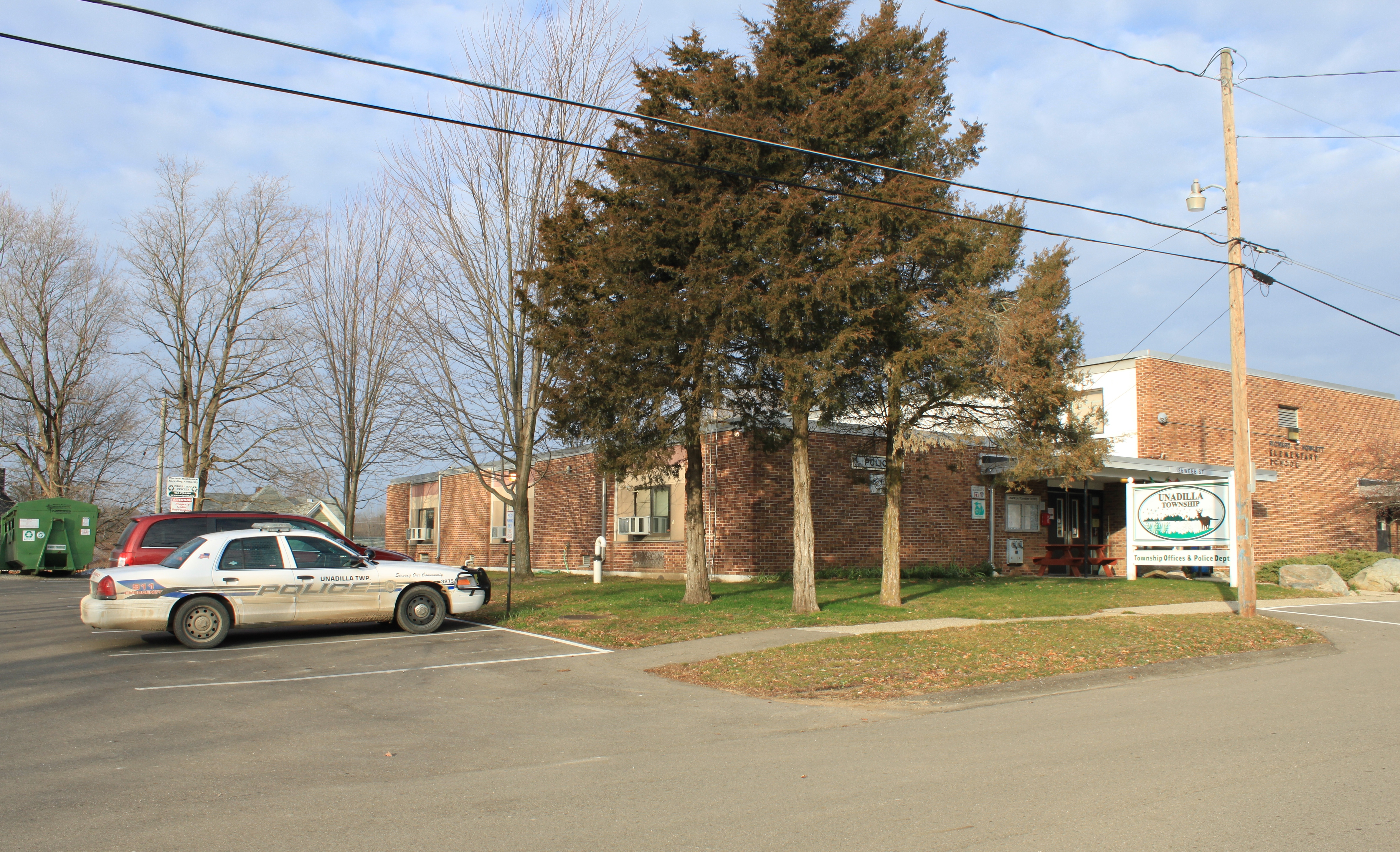 Unadilla Township Offices and Police Department, 126 Webb Street, Gregory, Michigan.